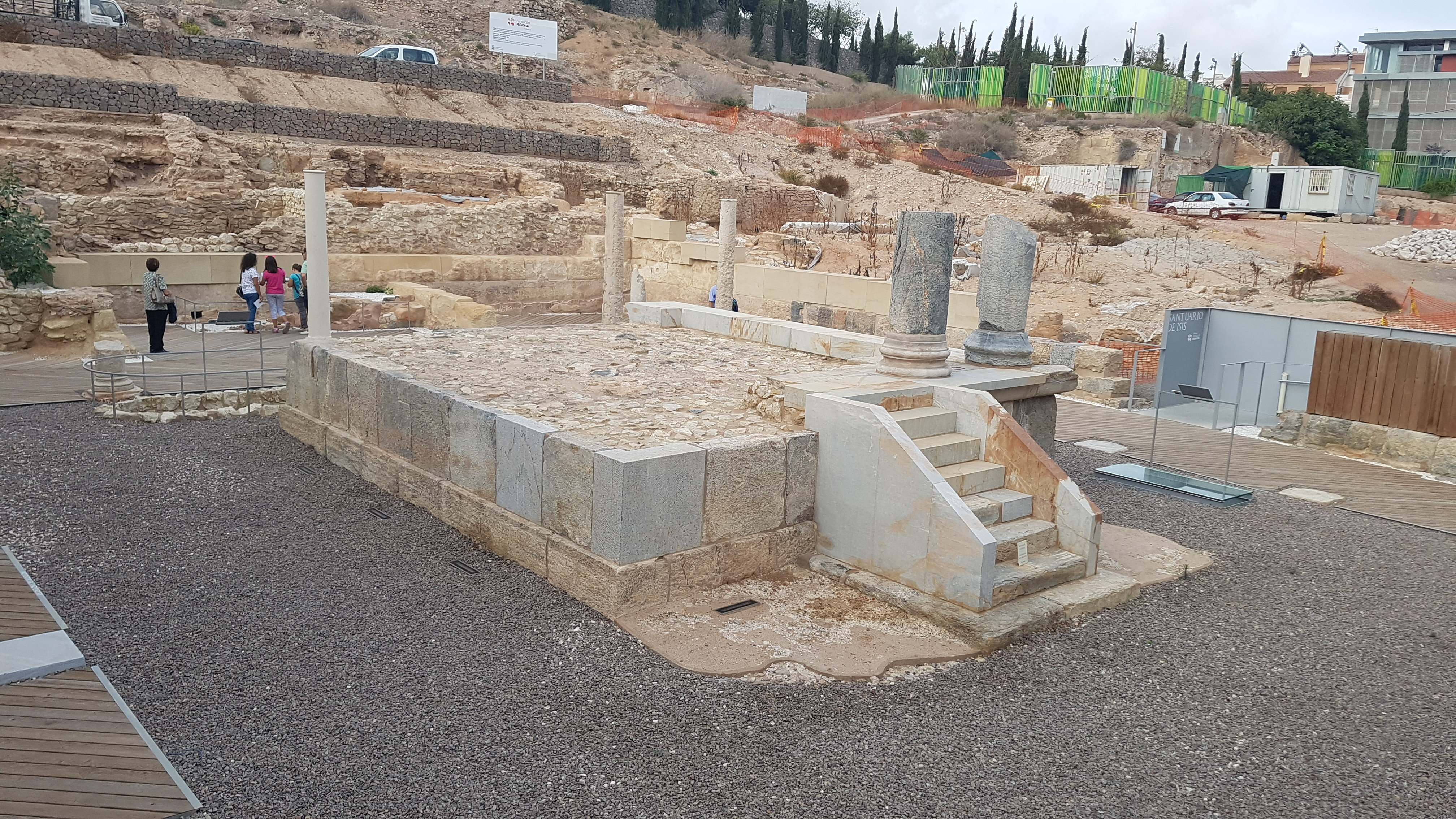 The sanctuary of Isis in Cartagena, discovered during the archaeological campaign of 2015 in the so-called Ancient Roman forum district and integrated since 2017 into the city's museistic itinerary. This space was reserved for the cult of the deity of Egyptian origin Isis, brought to the Ancient Roman pantheon from the eastern Mediterranean by merchants, soldiers and slaves.